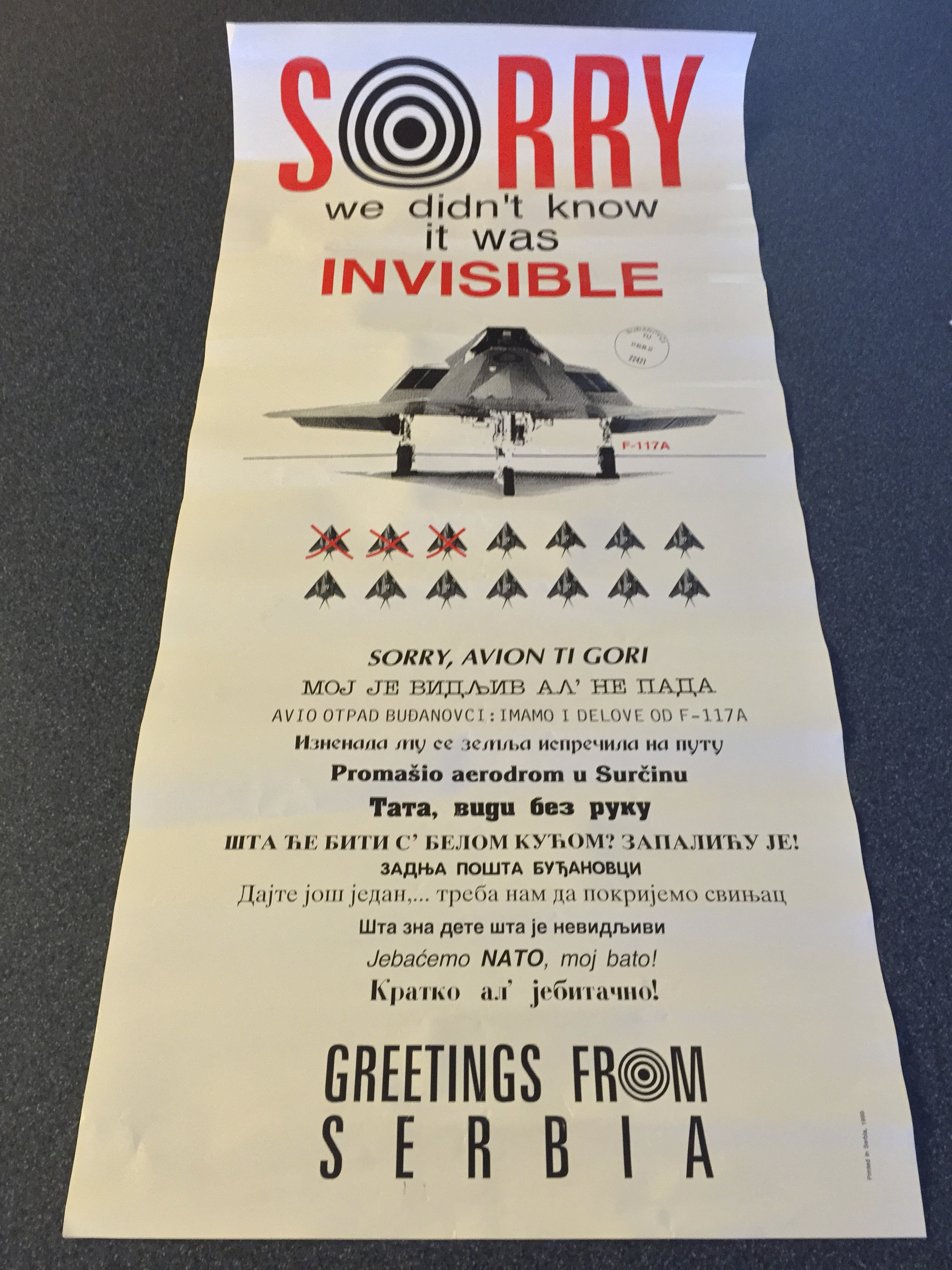 Serbian poster "Sorry we didn't know it was invisible" regarding the 1999 F-117A shootdown.